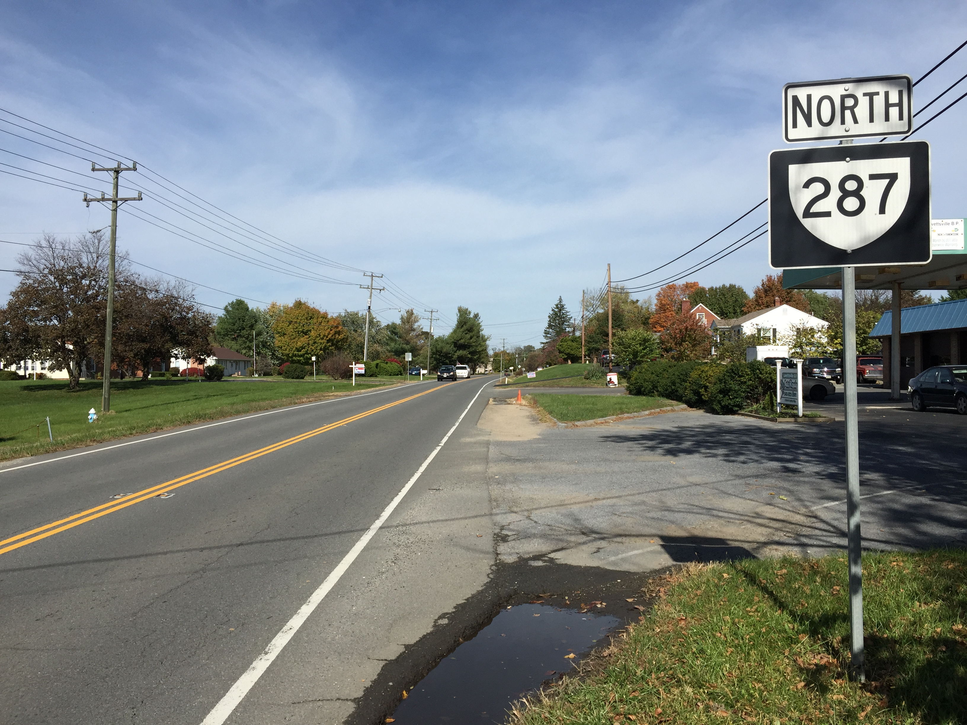 View north along Virginia State Route 287 (Berlin Turnpike) at Broad Way in Lovettsville, Loudoun County, Virginia